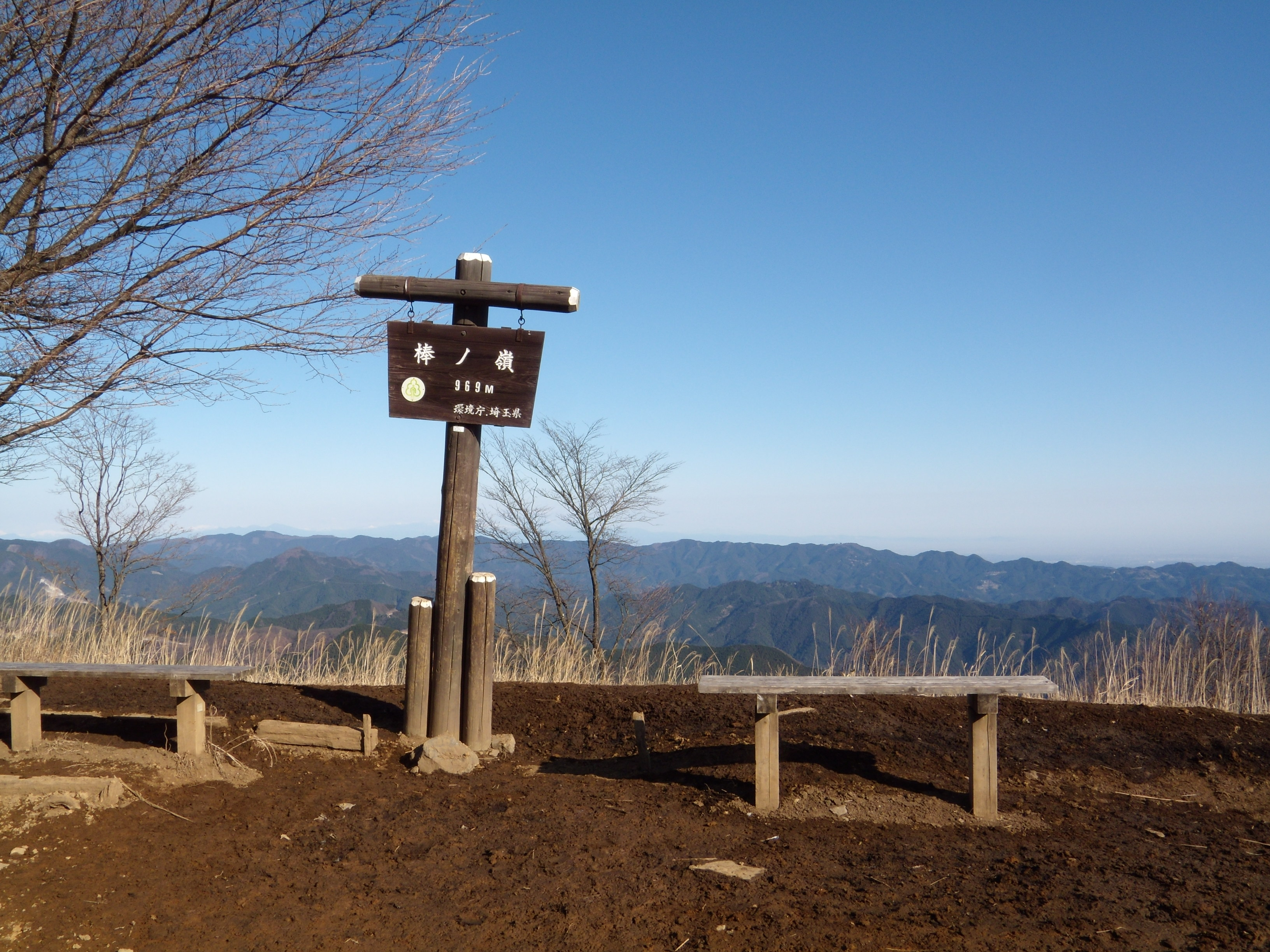 Summit of Mount Bonoore (Bo-no-ore-san) on the border between Saitama Prefecture and Tokyo. Looking the NNE.